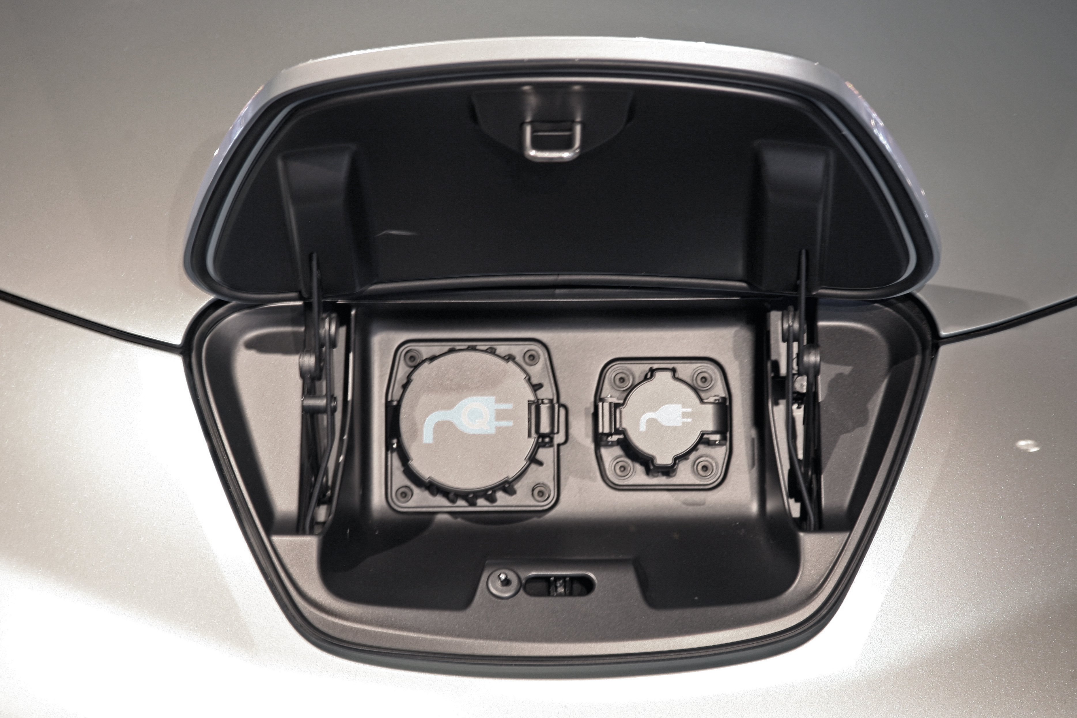 Nissan Leaf dual charging outlets located in the front of the vehicle. Color saturation adjusted with Photoshop by User:Mariordo to match the car original gray color.